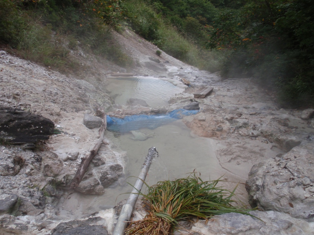 Onikobe Onsen Arayu Jigoku in Osaku, Miyagi